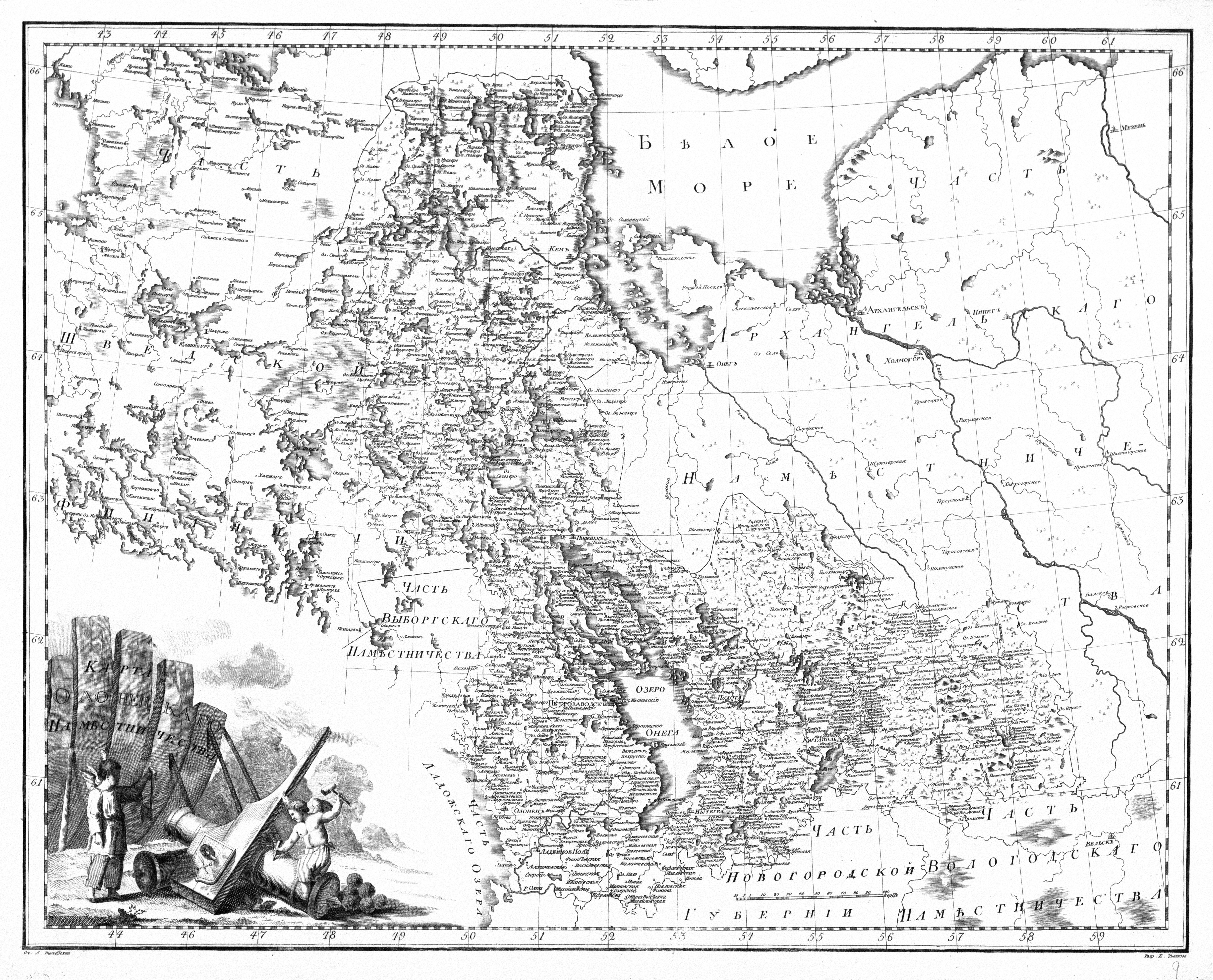 Map of Olonets Namestnichestvo (sheet 9) from official Atlas of the Russian Empire (1792).